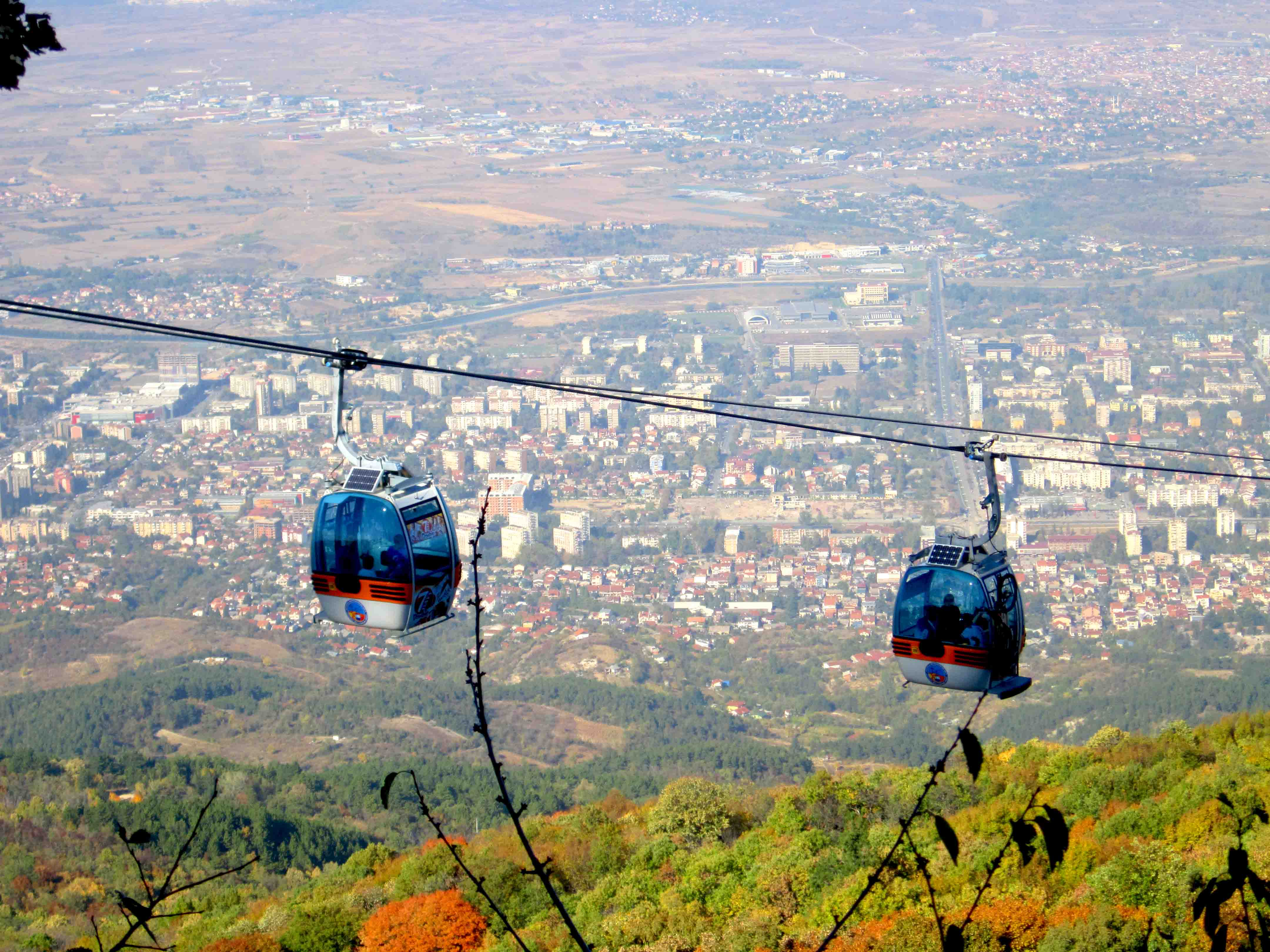 View from the top of the Vodno Mountain to the valley where is the Skopje city through the cabin cable that drive from the middle to the top of the mountain